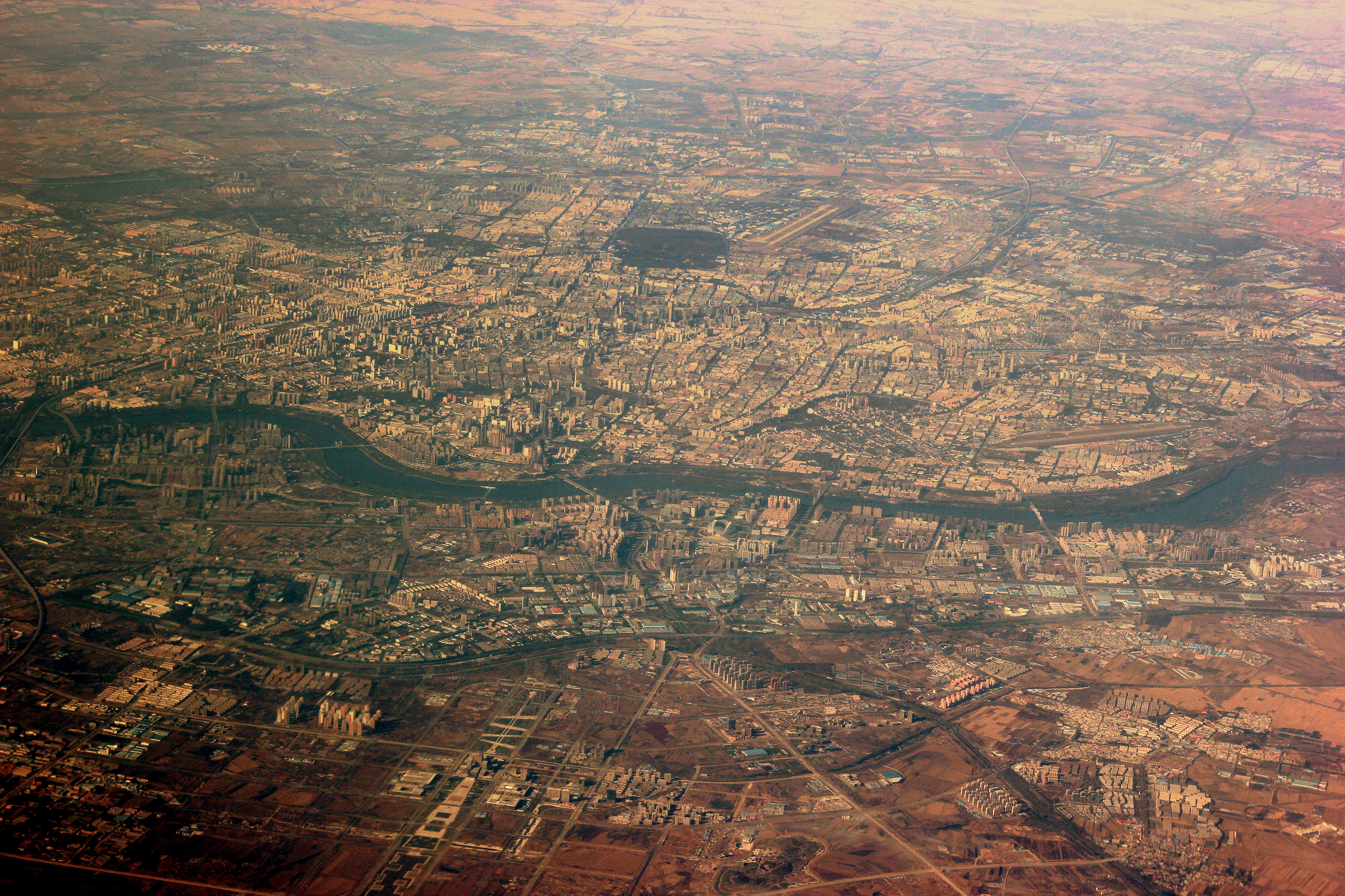 CITY OF SHENYANG CHINA TAKEN AT 33000 FEET AIR KORYO FLIGHT JS 152 P881 IL62M EN ROUTE BEIJING CAPITAL TO PYONGYANG DPR KOREA OCT 2012